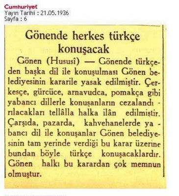 Cumhuriyet newspaper of Gönen dictrict of Balıkesir on May 21st of 1936